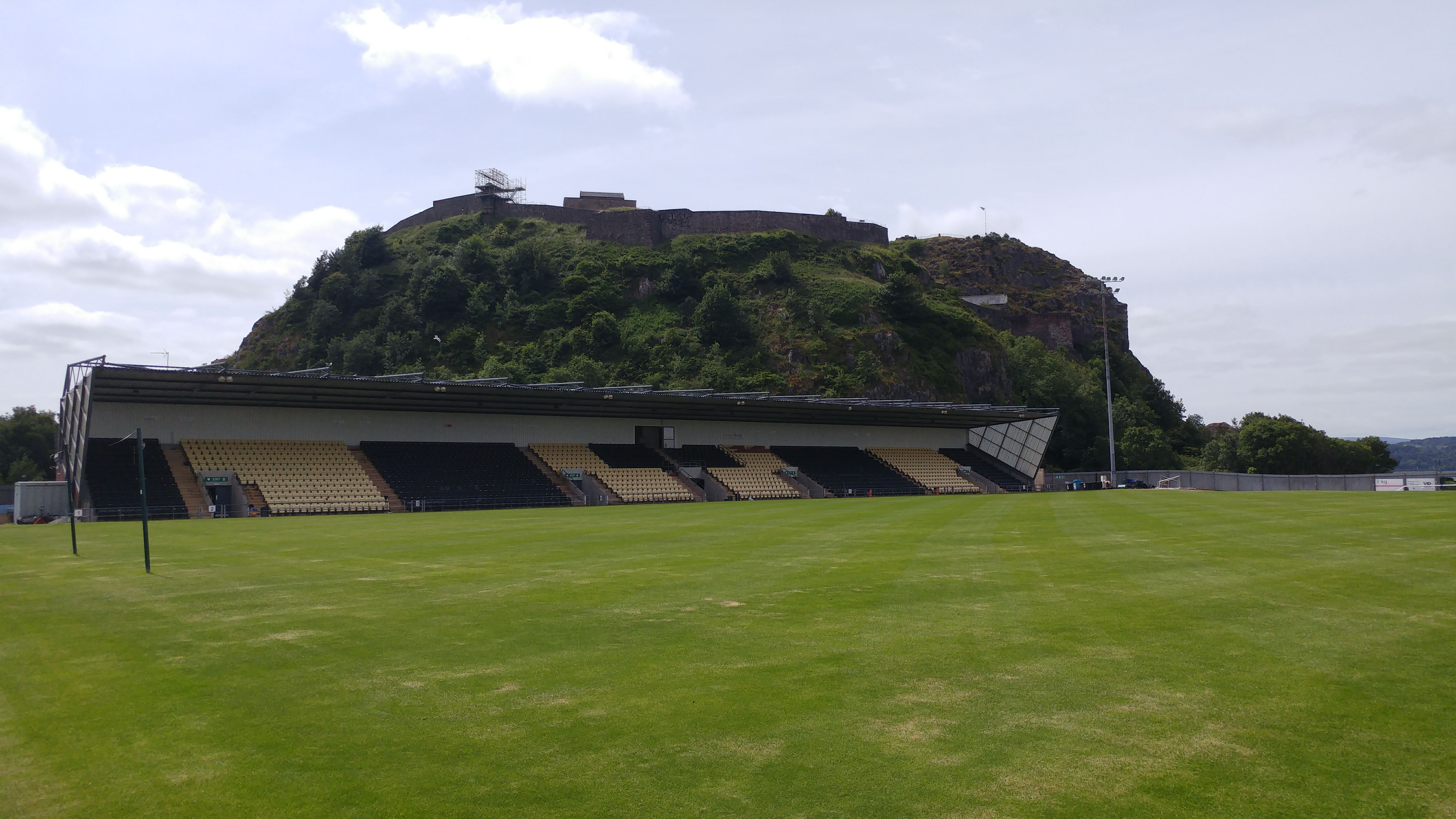 View of the stand at the Dumbarton Football Stadium in Dumbarton, West Dunbartonshire, Scotland. Home of Scottish League One side Dumbarton FC.